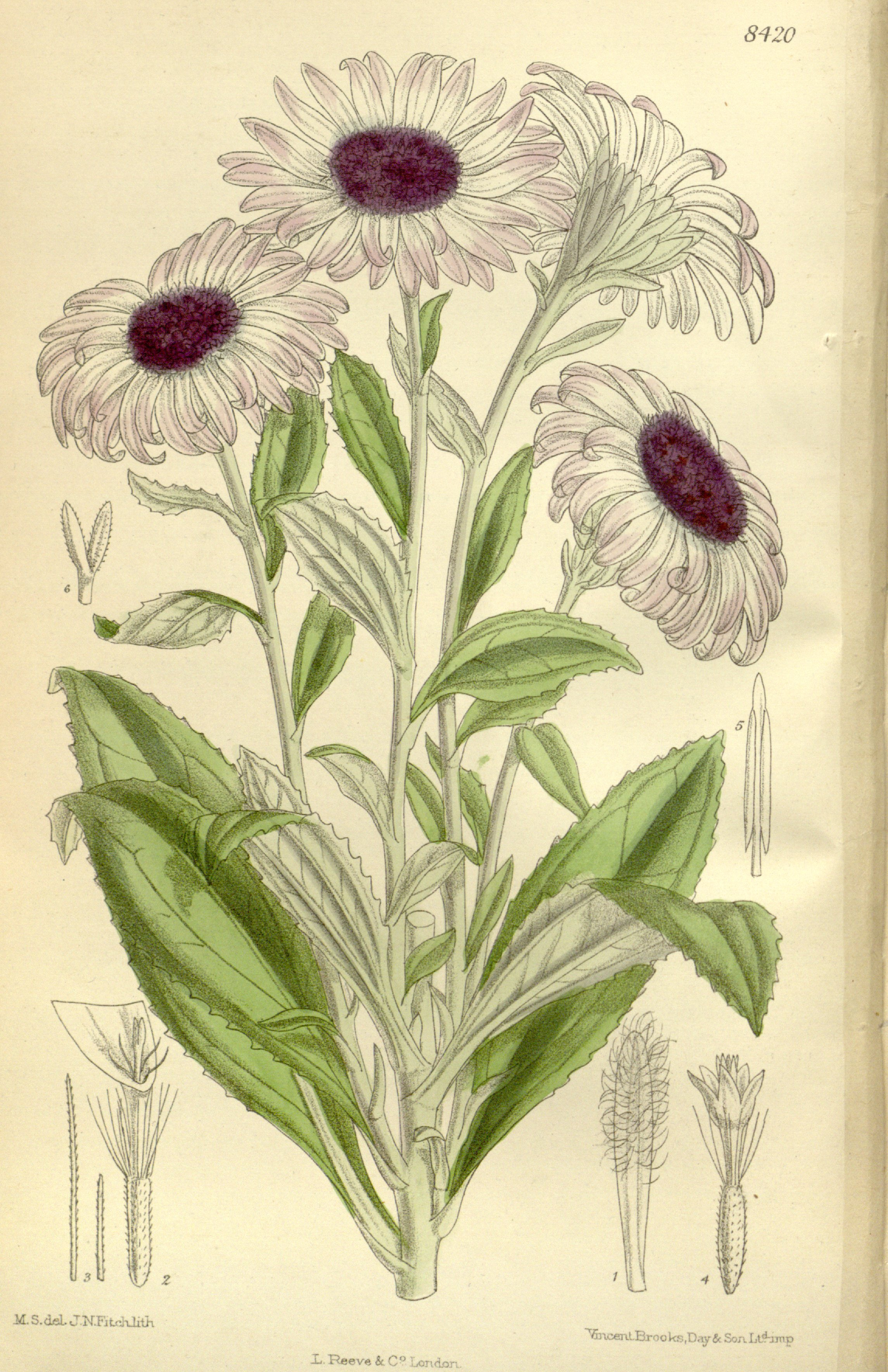 Olearia chathamica, Asteraceae